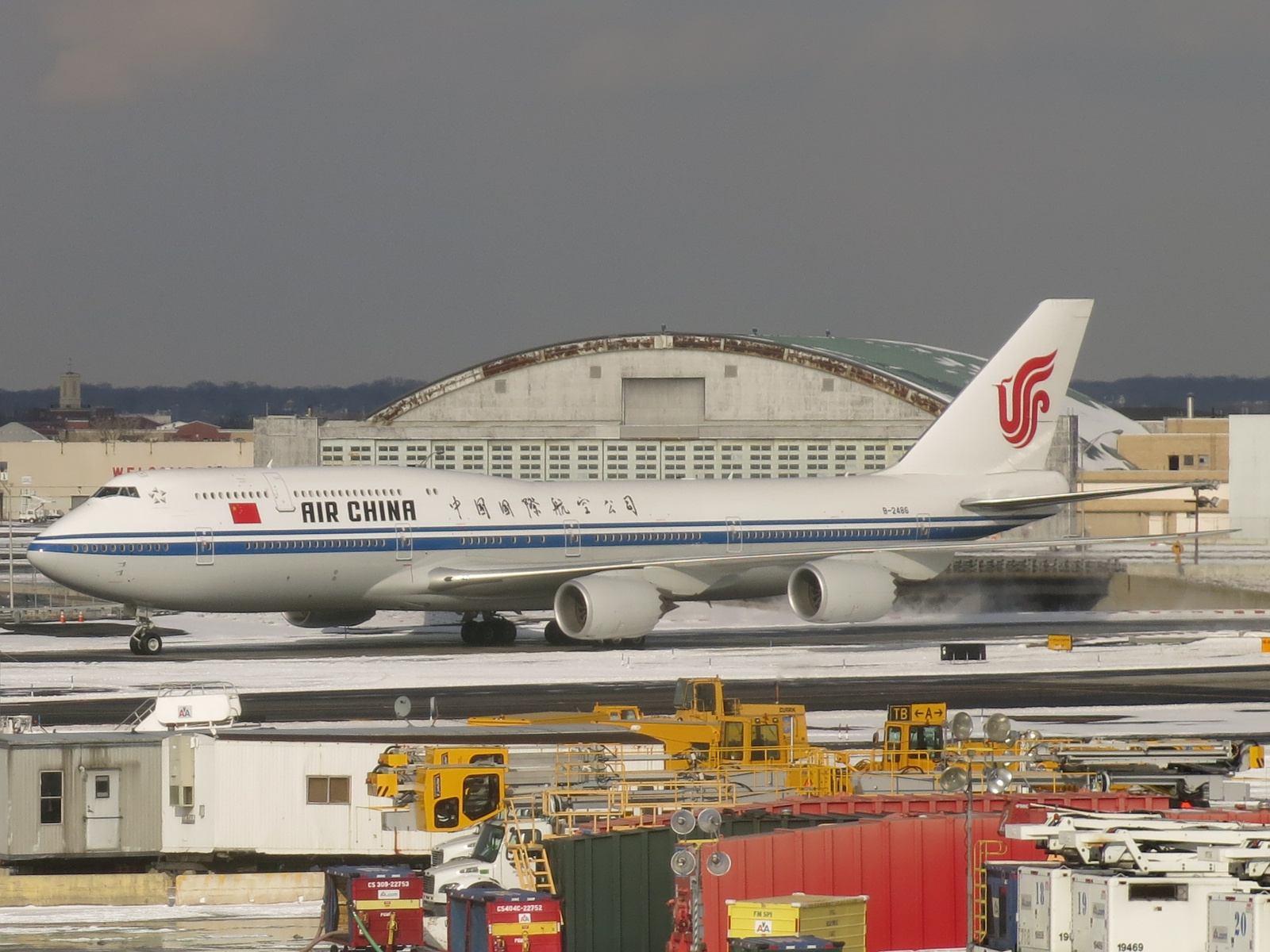 Air China Boeing 747-89L Intercontinental B-2486 has just completed Flight 981 from Beijing Capital International Airport to John F. Kennedy International Airport and is taxiing past Terminals 7 and 8 to its gate at Terminal 1 at John F. Kennedy International Airport.文言: 中國國際航空公司的波音747-89L（編號B- 2486）剛剛執行完從北京首都國際機場至約翰· F·肯尼迪國際機場的CA981號班機，正在從7號航站樓和8號航站樓前滑行通過，前往1號航站樓的閘口。